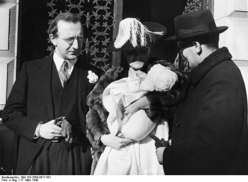 Familie Hubertus Prinz zu Löwenstein Löwenstein, Prinz, 1940, Wertheim-Freudenberg, Hubertus Dr. jur. 547686, First American-born German Princess christened, New York, Princess Maria Elizabeth Katerina Gabriele Dorothea Constance Edwarda zu Löwenstein, three and onehalf months old, believed to be the first German Princess to be born in the United States, beeing held by her mother, Princess Helga Maria zu Löwenstein, after the baby`s Christening at Corpus Christi Catholic Church, New York City, March 17. At the left is the child`s father, Prince Hubertus zu Löwenstein, Author, Lecturer and former leader of the Catholic Centrist Party in Germany. At the right is Karel Hudec, acting Czechoslovakian Consul General in New York, who represented the Godfather, Eduard Benes, Former President of Czechoslovakia. Credit Line (Acme) 3-17-40 (ct) NY CHI BER [New York.- vlnr: Hubertus Prinz zu Löwenstein-Wertheim-Freudenberg, Helga Maria zu Löwenstein-Wertheim-Freudenberg (geborene Schuylenburg) mit Tochter Konstanza Prinzessin zu Löwenstein und Karel Hudec nach der Taufe] Abgebildete Personen: Löwenstein-Wertheim-Freudenberg, Hubertus Prinz zu: 1906-1984; Journalist, Historiker, MdB, FDP, DP, CDU, Deutschland